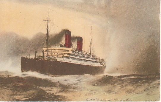 Postcard of RMS Carmania